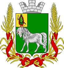 Dankov city (Lipetsk oblast), coat of arms 1862